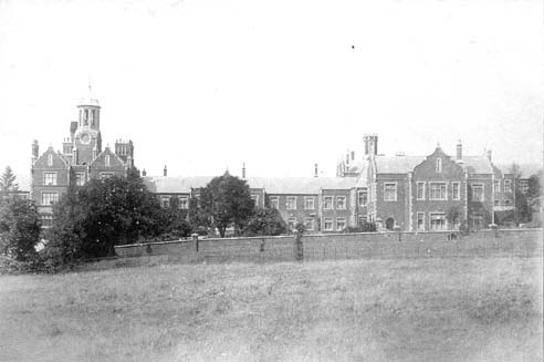 Main building at Central Hospital, Hatton in the 1890s, then Hatton Asylum. Note the bell tower on the left hand side of the picture.